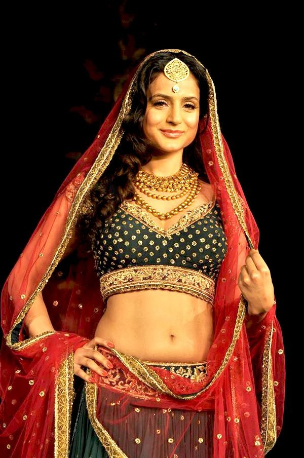 Ameesha Patel walks for Rocky S at Aamby Valley City India Bridal Week 2011